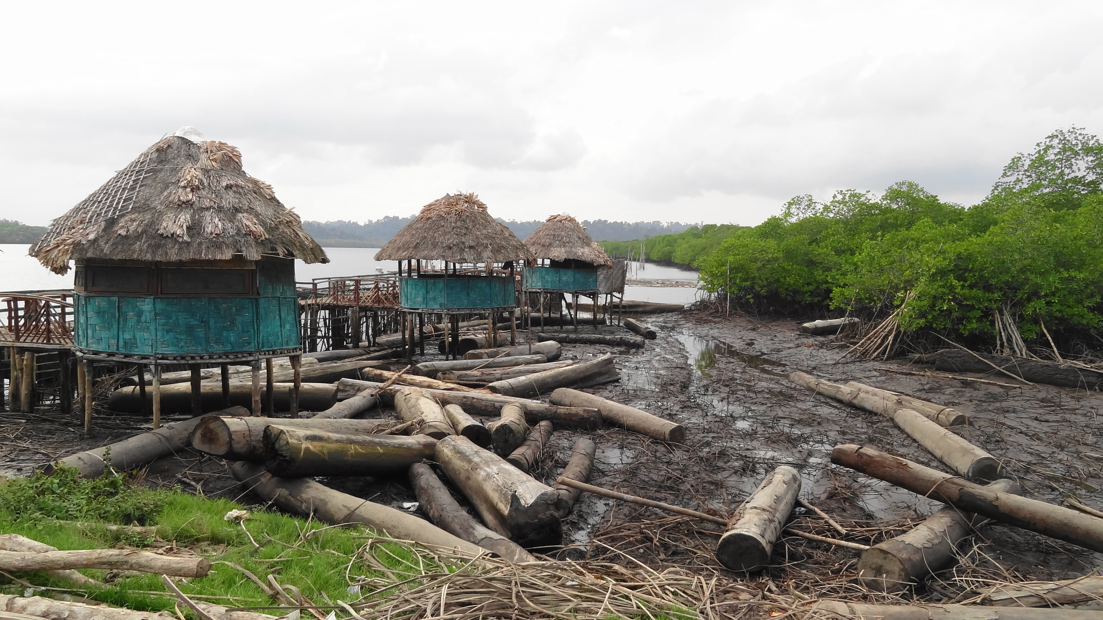 Timber